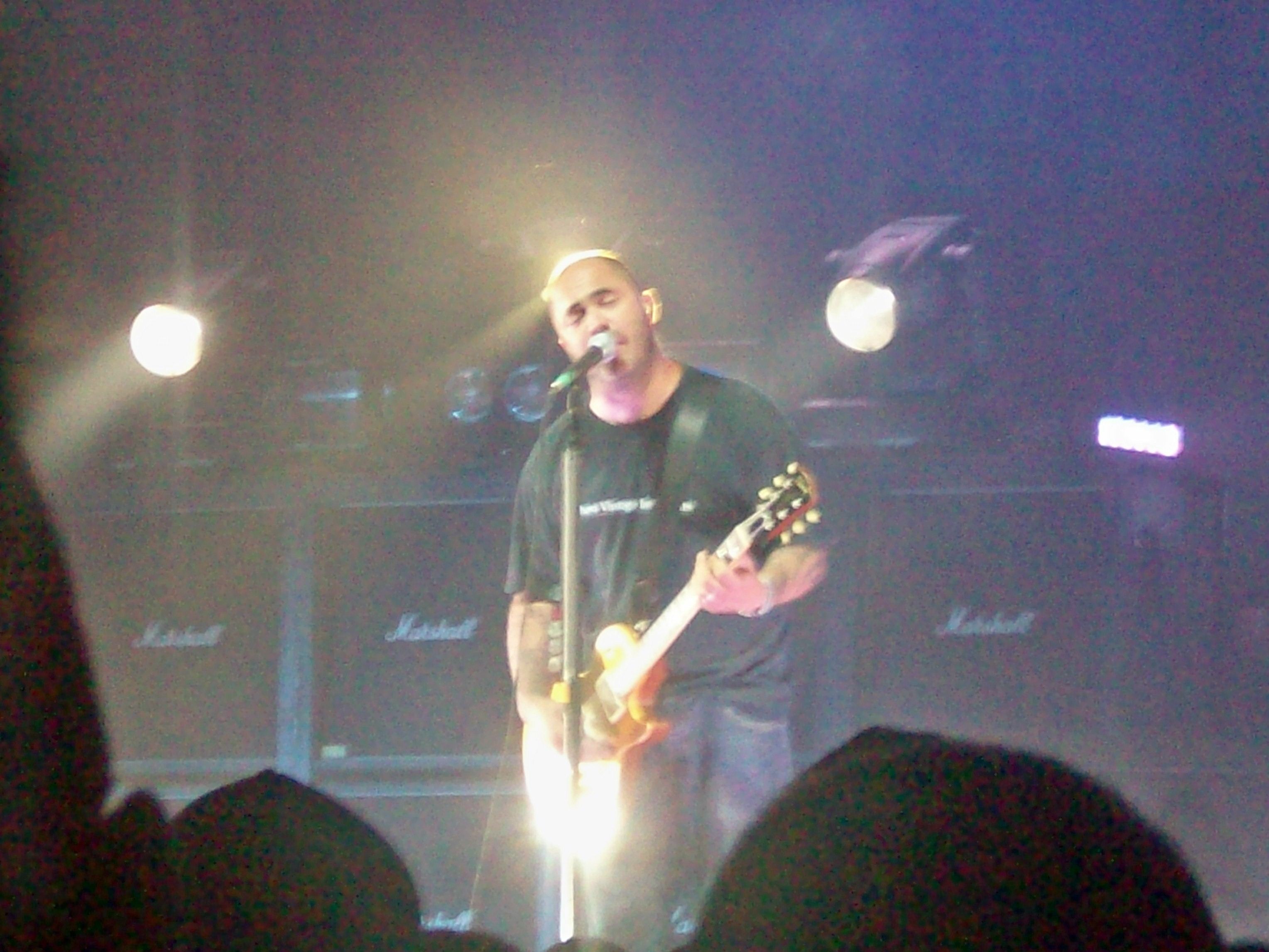 Lewis performing with Staind at the Special Events Centre in Greensboro, North Carolina